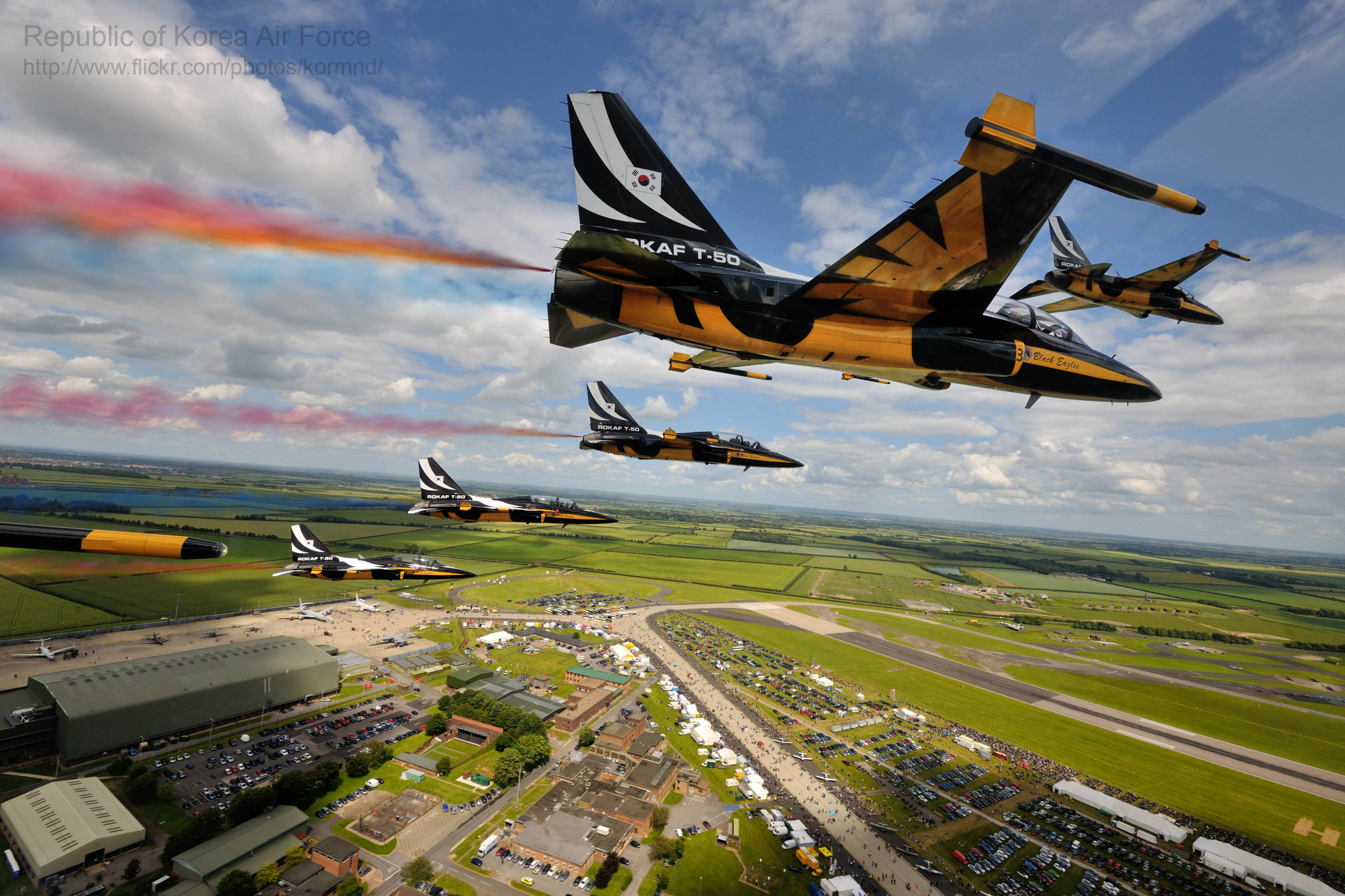 2012.6. 공군 블랙이글스 Rep.of Korea Air Force Black Egles 와딩턴 국제에어쇼 행사장 상공을 힘차게 날고 있는 블랙이글스의 모습